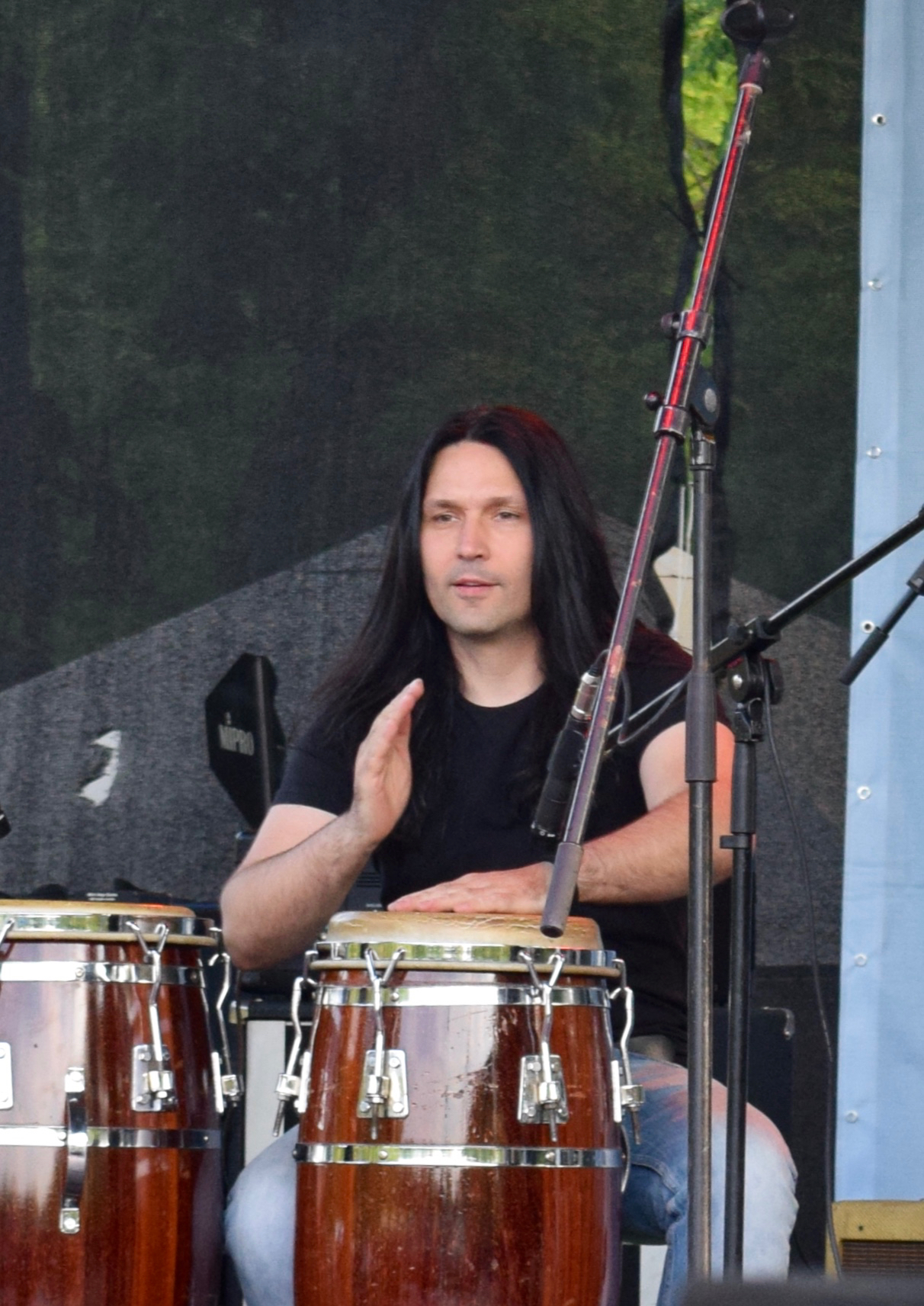 The Bulgarian drummer Emil Tassev